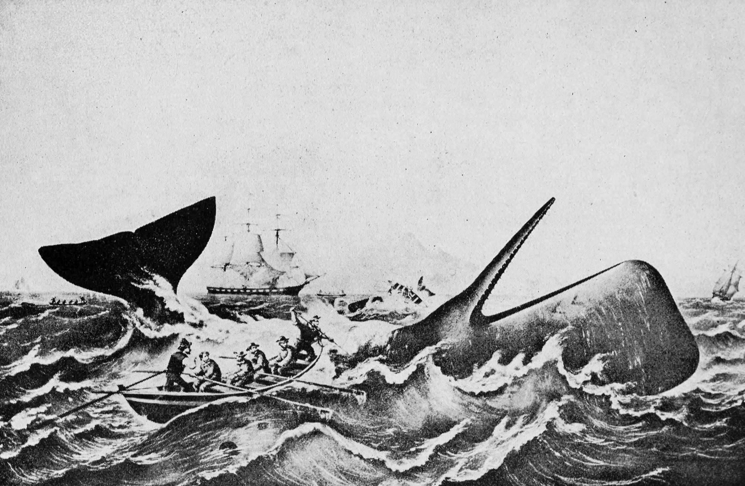 Sperm whaling - The capture